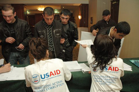 This is an image of DynCorp Development